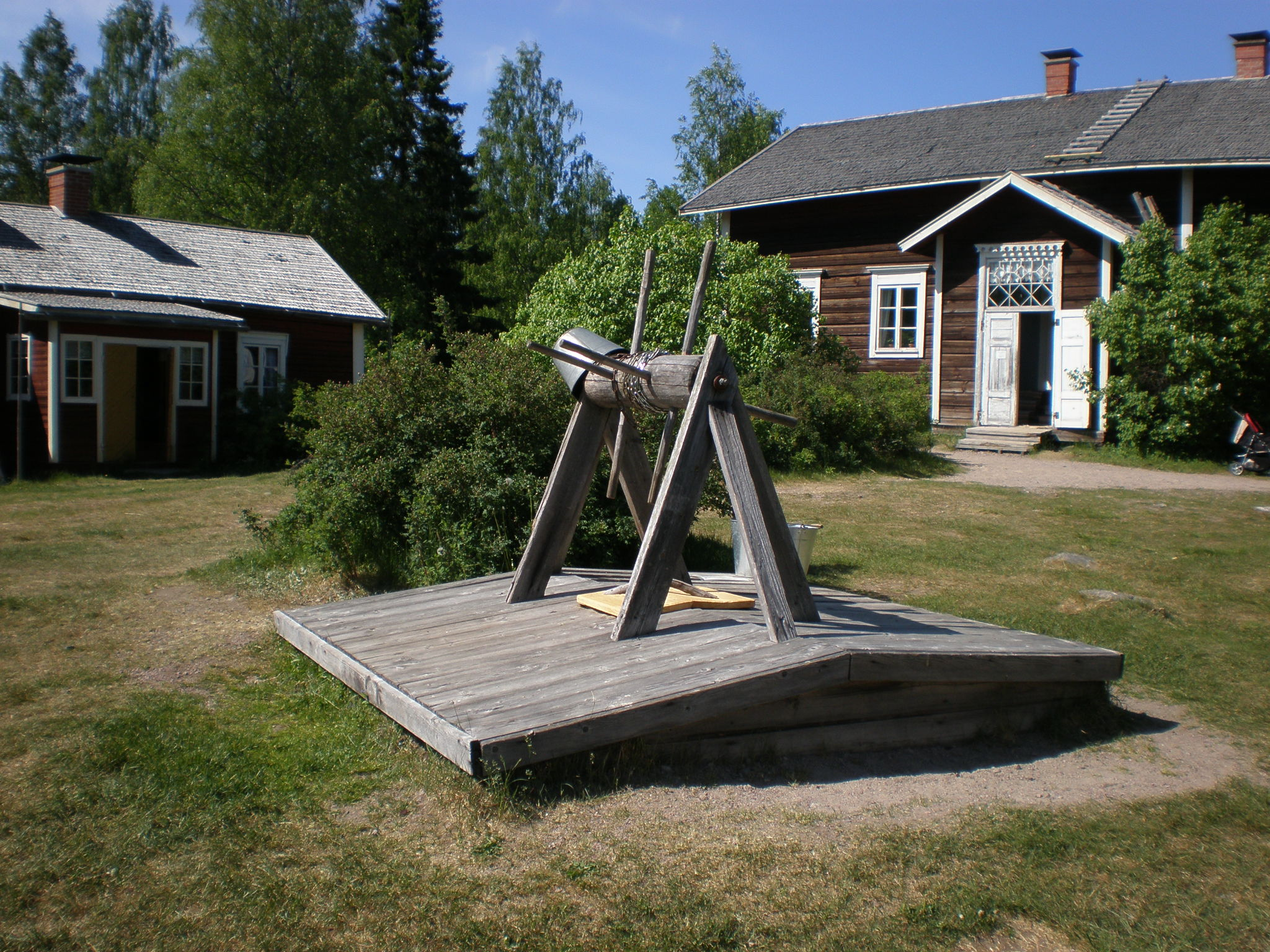 Kovero Crown Tenant Farm established 1859. It is part of Seitseminen National Park cultural heritage area.